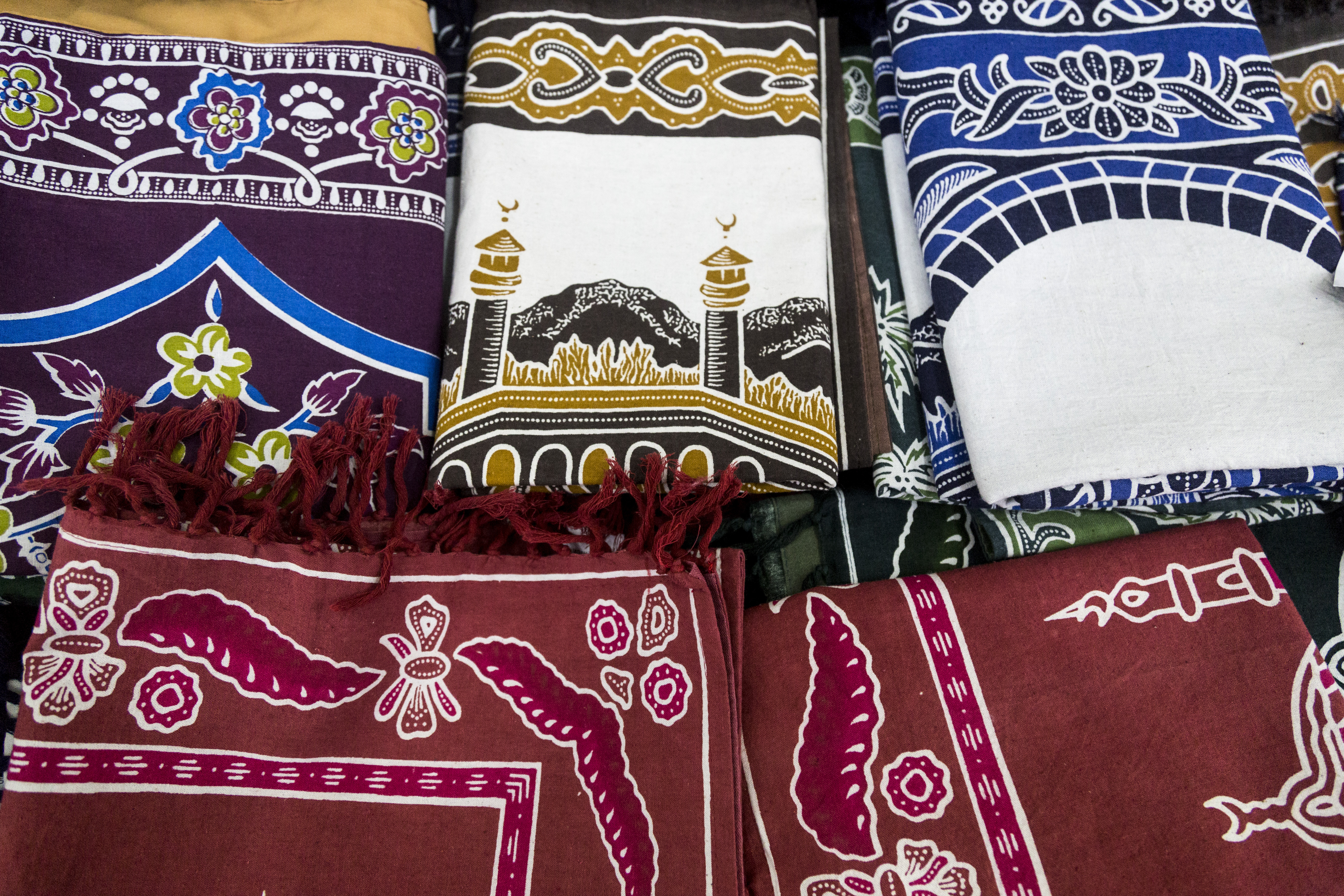 finished fabrics of batik trusmi, and ready to sold